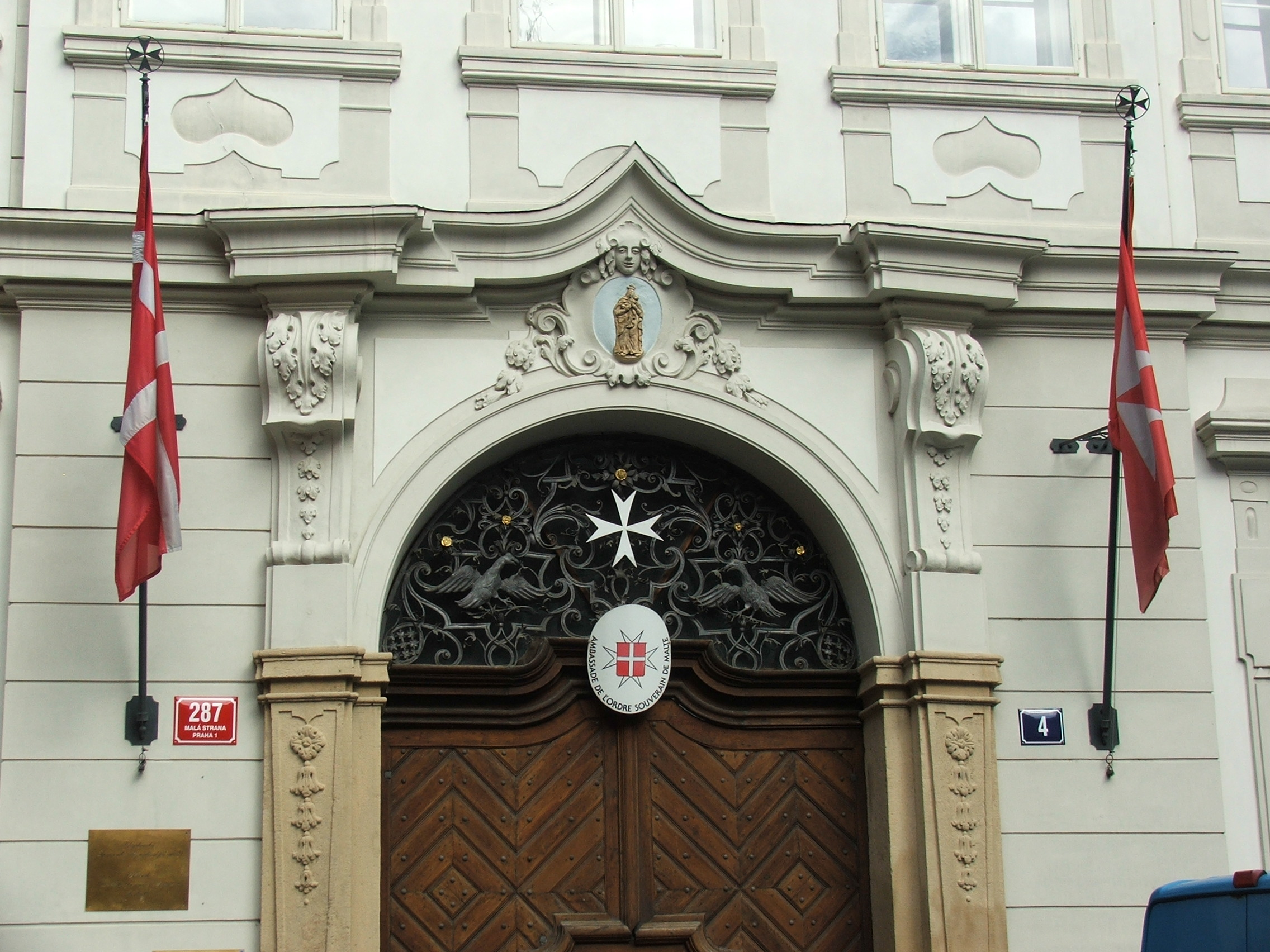 Turba Palace - seat of Embassy of Sovereign Military Order of Malta in Prague - Malá Strana, Czechia